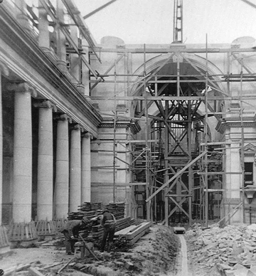 Nave of Cathedral of The Blessed Sacrament under construction (Christchurch, Canterbury, New Zealand) Image:Blessed Sacrament. Christchurch NZ.gif